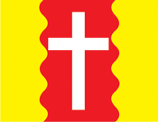 Flag of the former Avanduse Parish, Estonia.